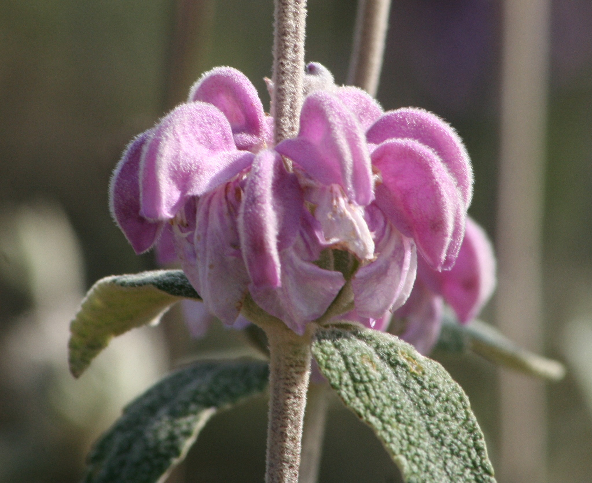 Phlomis herba-venti